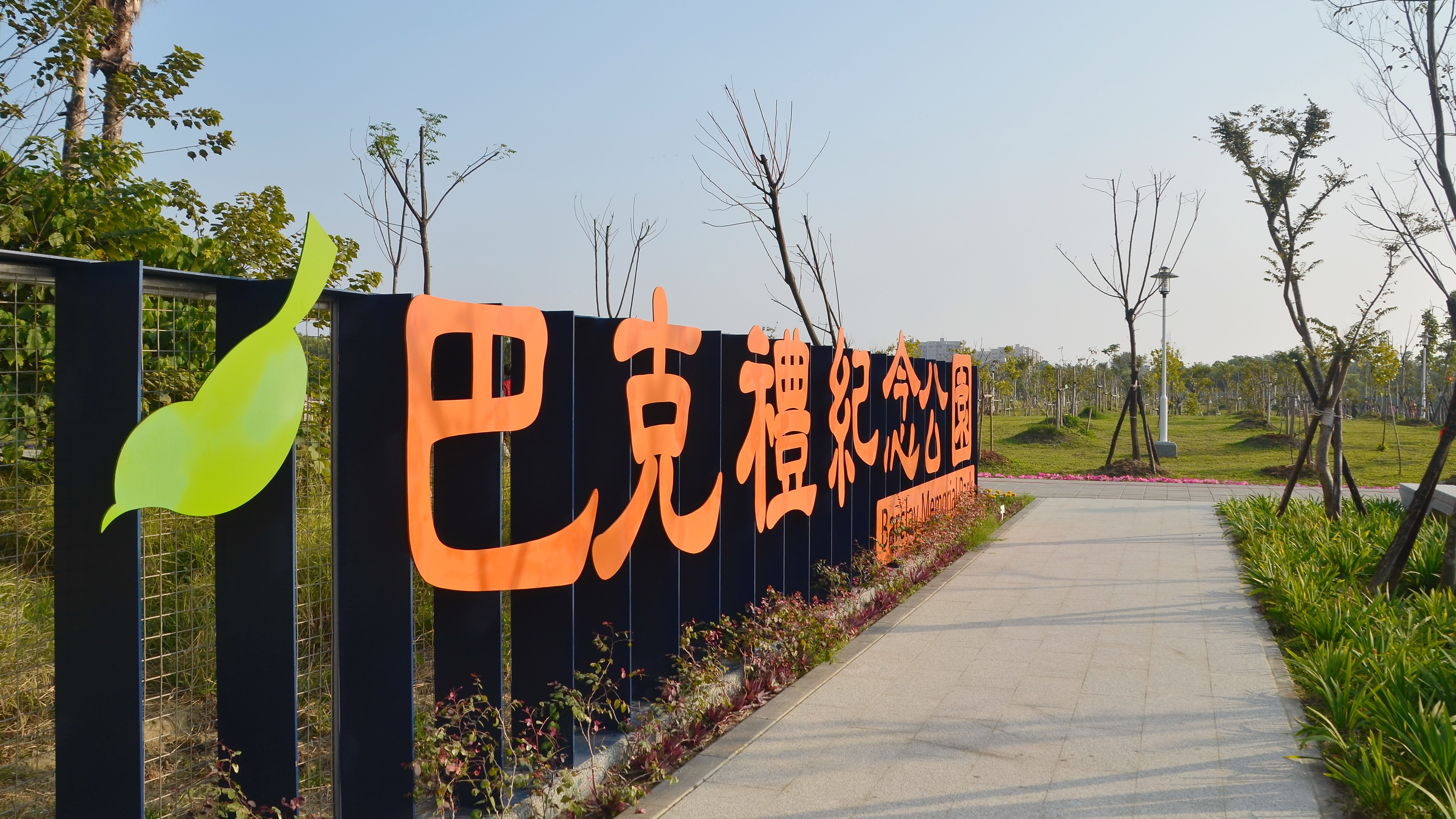 Barclay Memorial Park, Phase 2, Tainan, Taiwan.